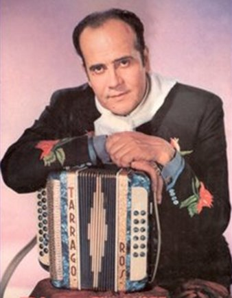 Tarragó Ros. Argentina. Chamamé. Acordeón.